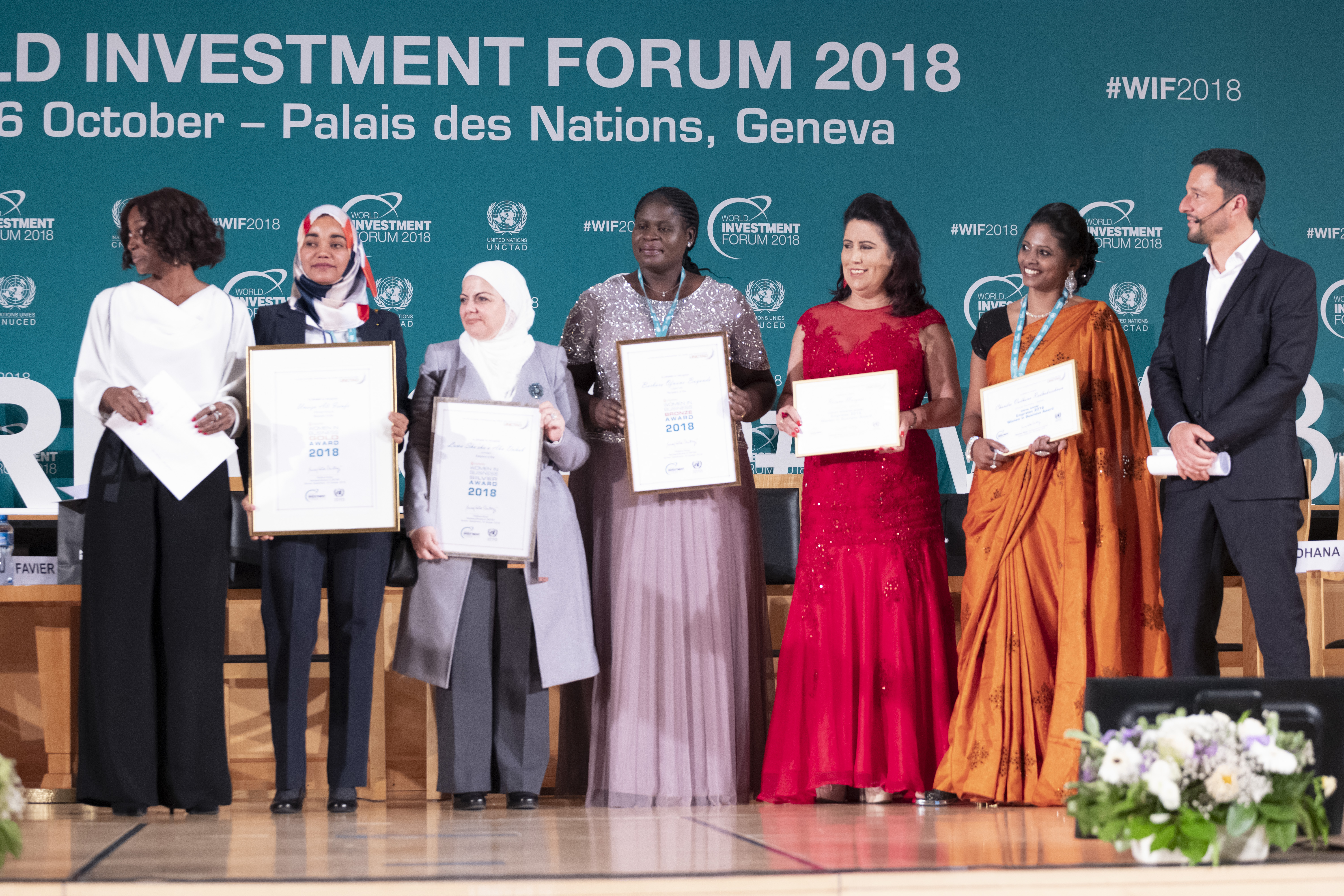 Group photo with the winners during Ceremony Women in Business Awarads during Word Investment Forum 2018. UNCTAD Photo/ Jean Marc Ferré